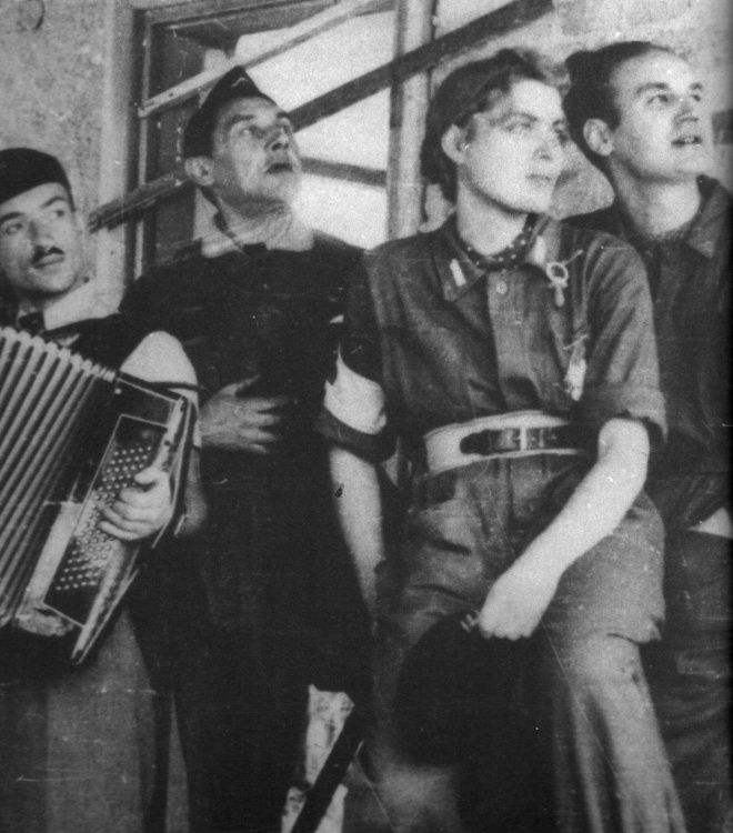 Warsaw Uprising: Group of insurgents in M. A. Brodzisz townhouse at Malczewskiego street in Mokotów district. People from the right: Jan Markowski "Krzysztof", medic-courier from B 1 company Janina Załęska "Małgorzata" and Wacław Żdżarski (with accordion). "Krzysztof" was second in command in a sapper unit of "Baszta" Regiment i compositor of well known "Marsz Mokotowa" song.